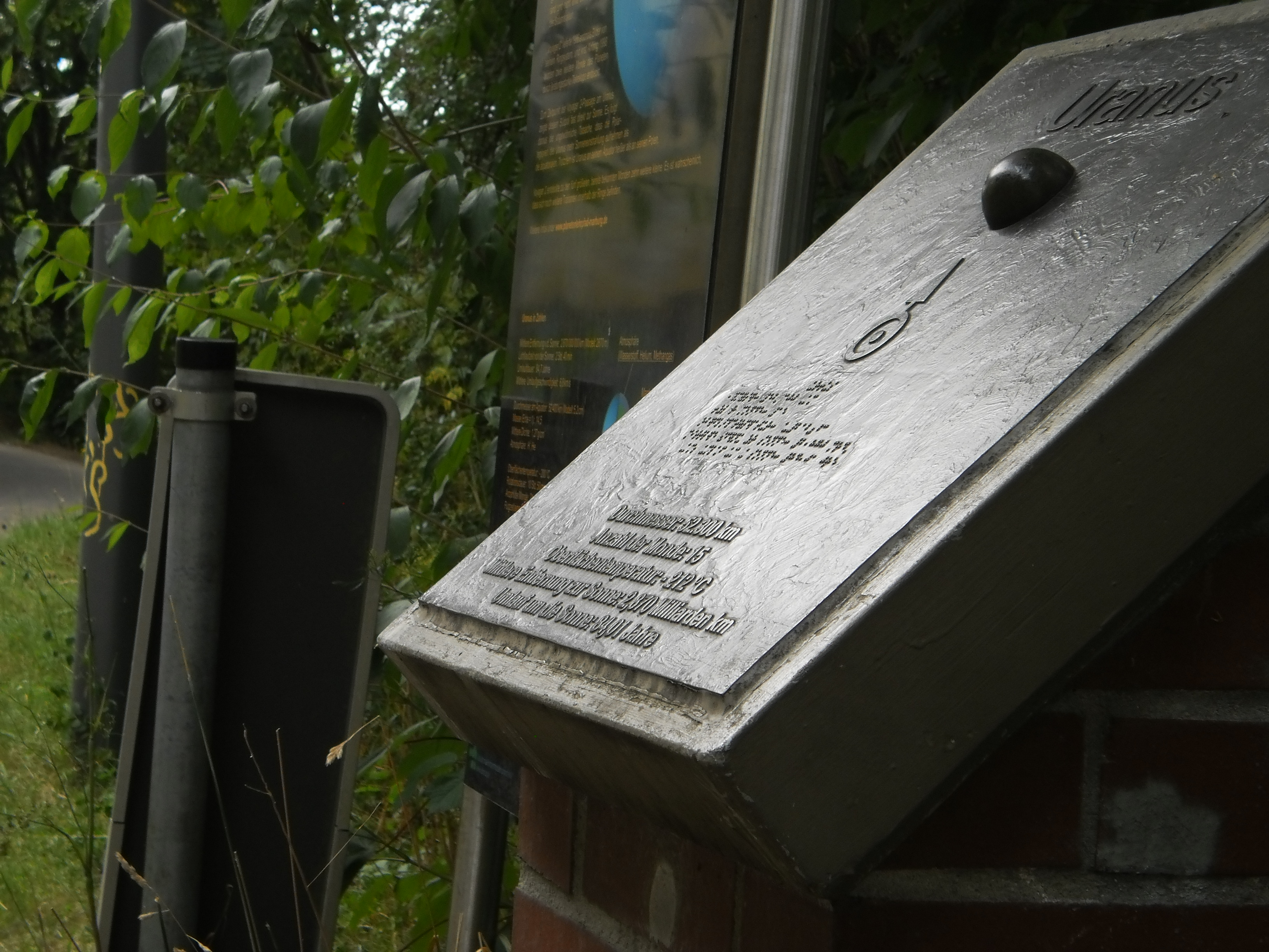 Planet Uranus at a planet trail (Planetenlehrpfad) as part of the model of the sun system along the bicycle route Lahntalradweg in Marburg. This one is made for blind people, as well for children to touch the size of the planet, and to read a short text in Braille. View ↓the other photo↓ in the South of bridge Hirsefeldsteg to see the surroundings of that place.